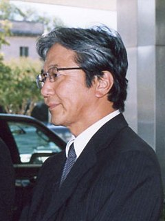 Mitoji Yabunaka (born January 23, 1948), Japanese Deputy Foreign Minister.